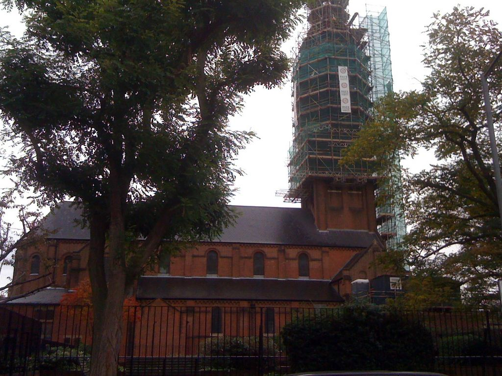 View of Sacred Heart Church, Battersea, taken from Battersea High Street by myself.